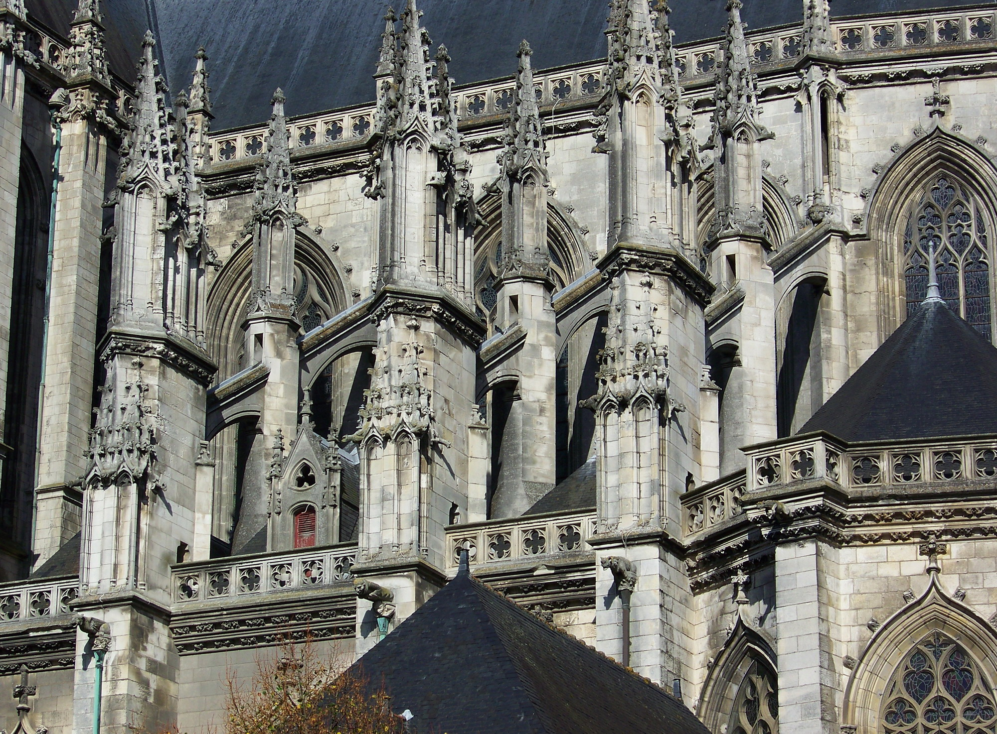 Flying buttresses of the Cathédrale Saint-Pierre et Saint-Paul in Nantes.